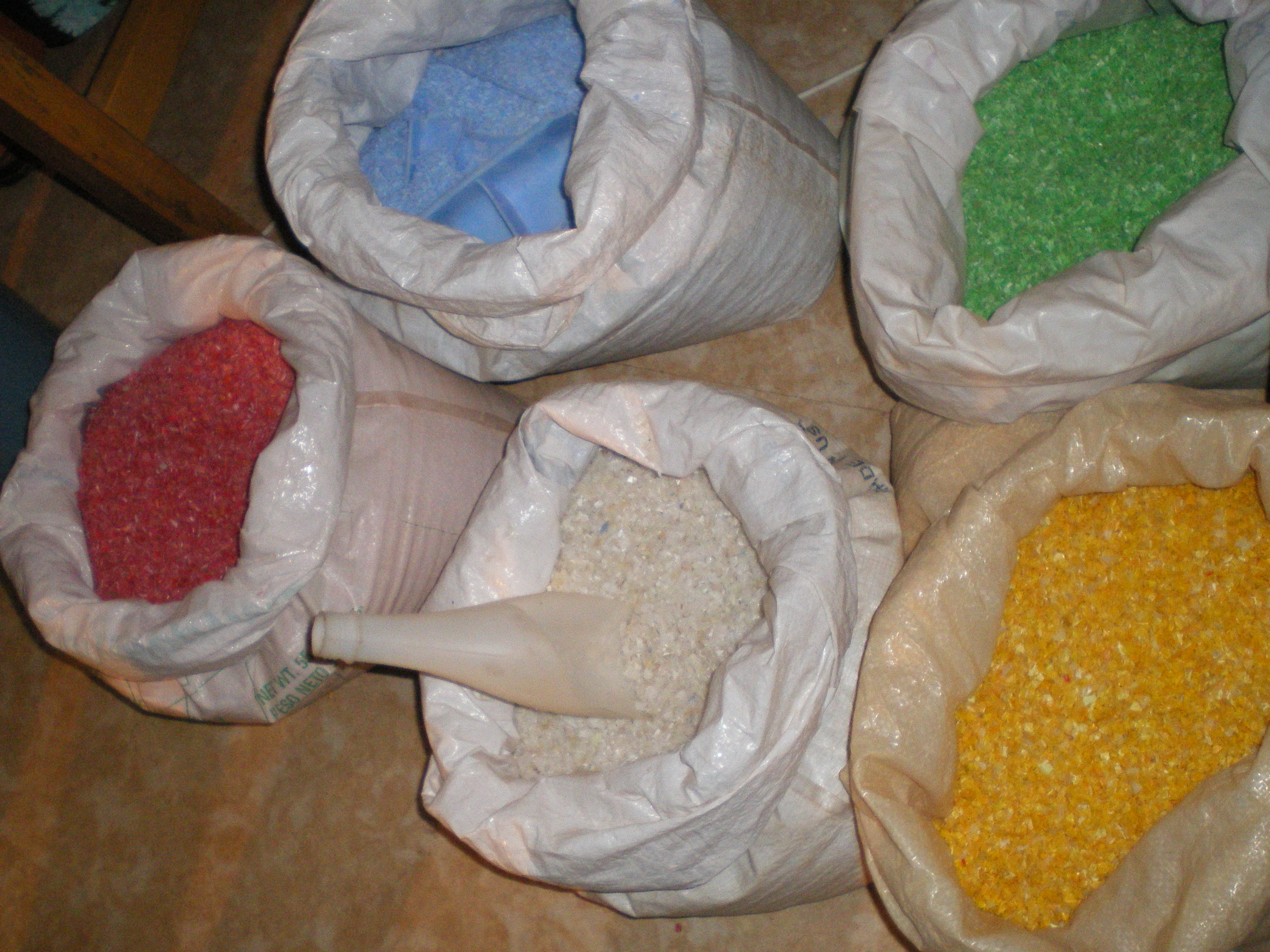 Burkina Faso: solid waste reuse in Ouagadougou - La réutilisation des déchets solides à Ouagadougou